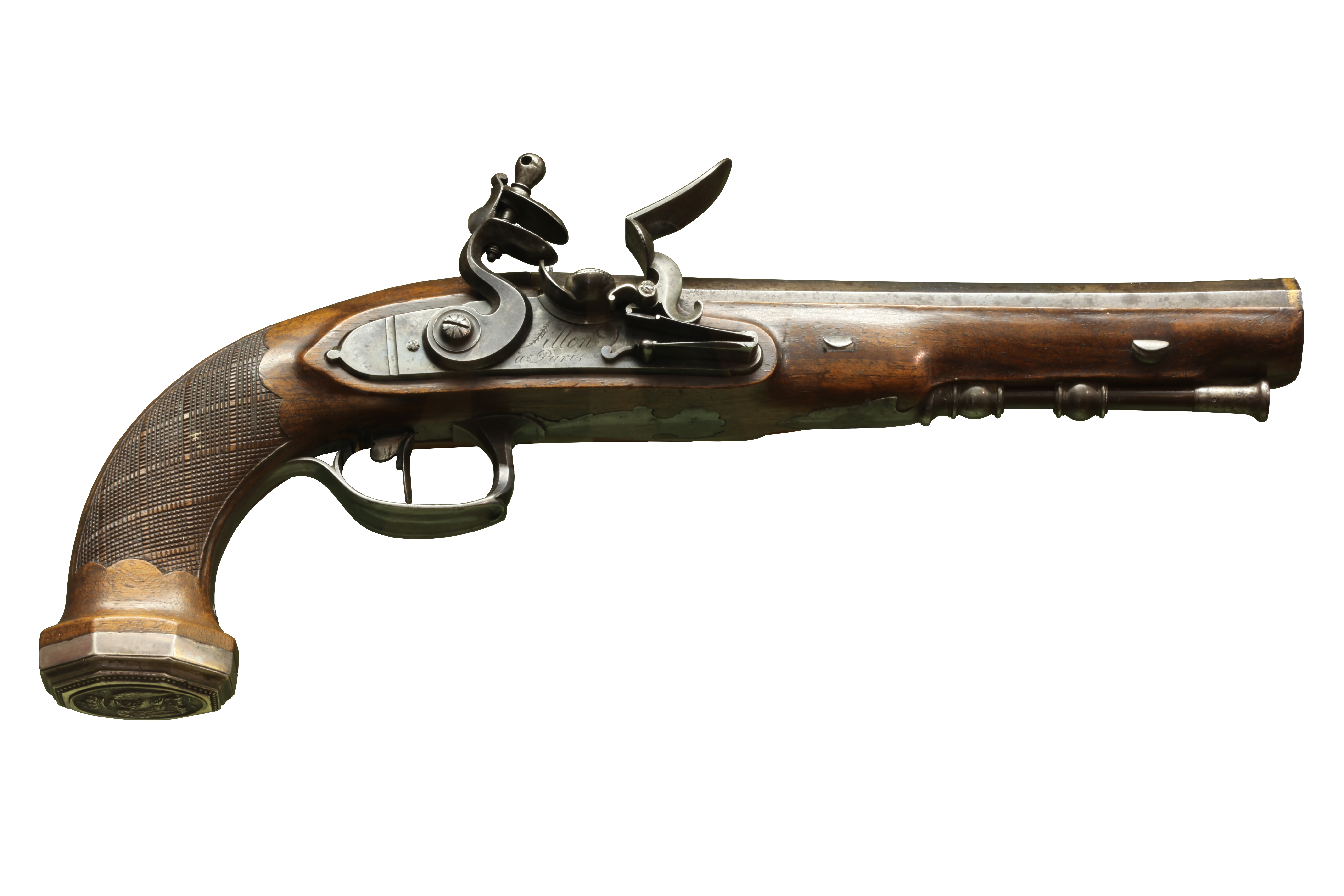 French officer flintlock pistol, 1st Empire, France, circa 1805-1810. Made by Fillon, gunsmith in Paris. On display at Morges military museum, access number MMV 1004696.